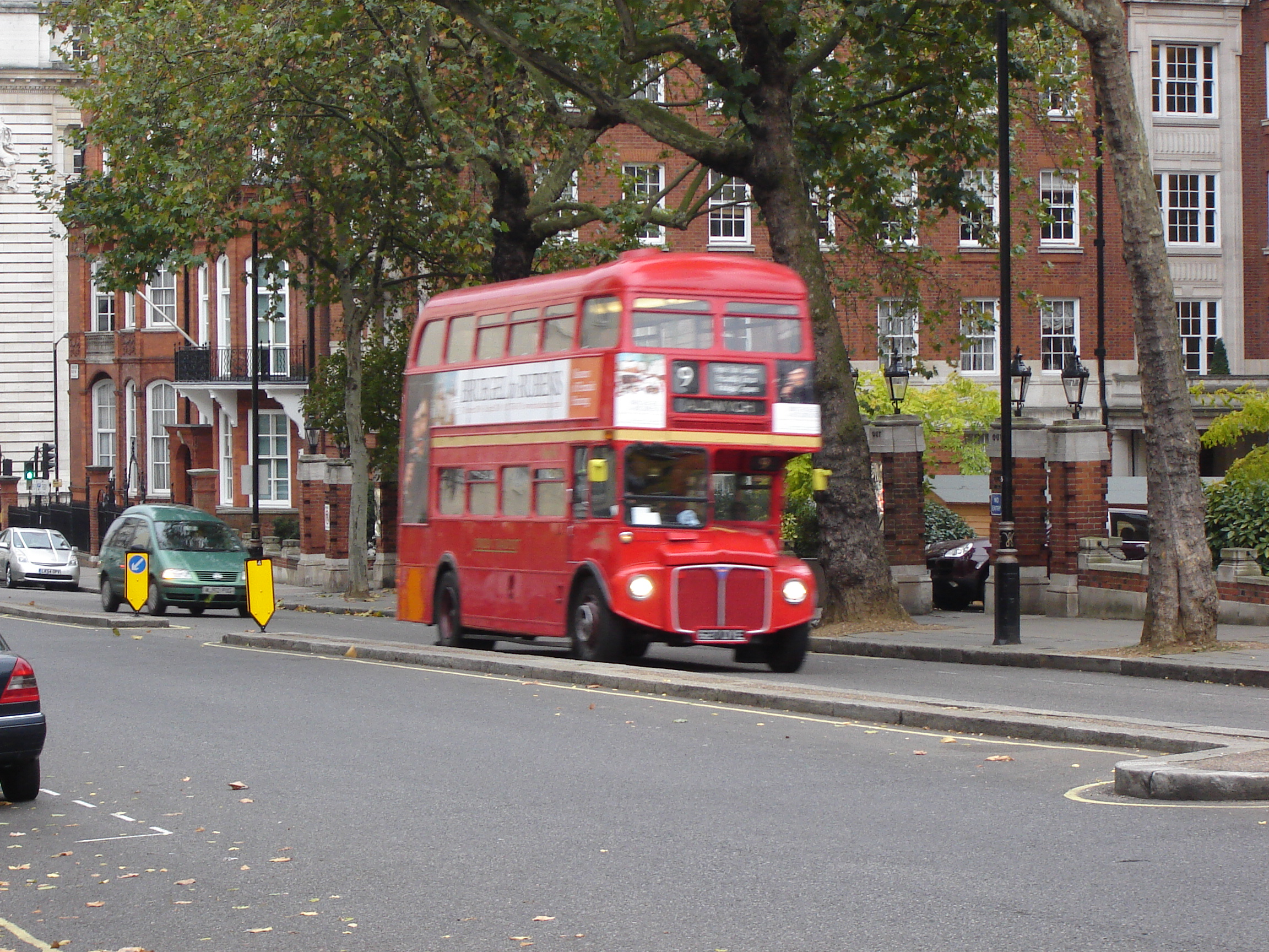 Heritage Routemaster RM1627 (reg. 627 DYE) heads north up Exhibition Road, passing the exit of Princes Gate Court, near the Royal Albert Hall. This is the western end of heritage route 9 - the bus is out of service at this point. It's using Queen's Gate (southbound) - Prince Consort Road (eastbound) - Exhibition Road (northbound) to turn around. It will pick up its first passengers when it gets back onto Kensington Road, for the new eastbound journey to Aldwych.